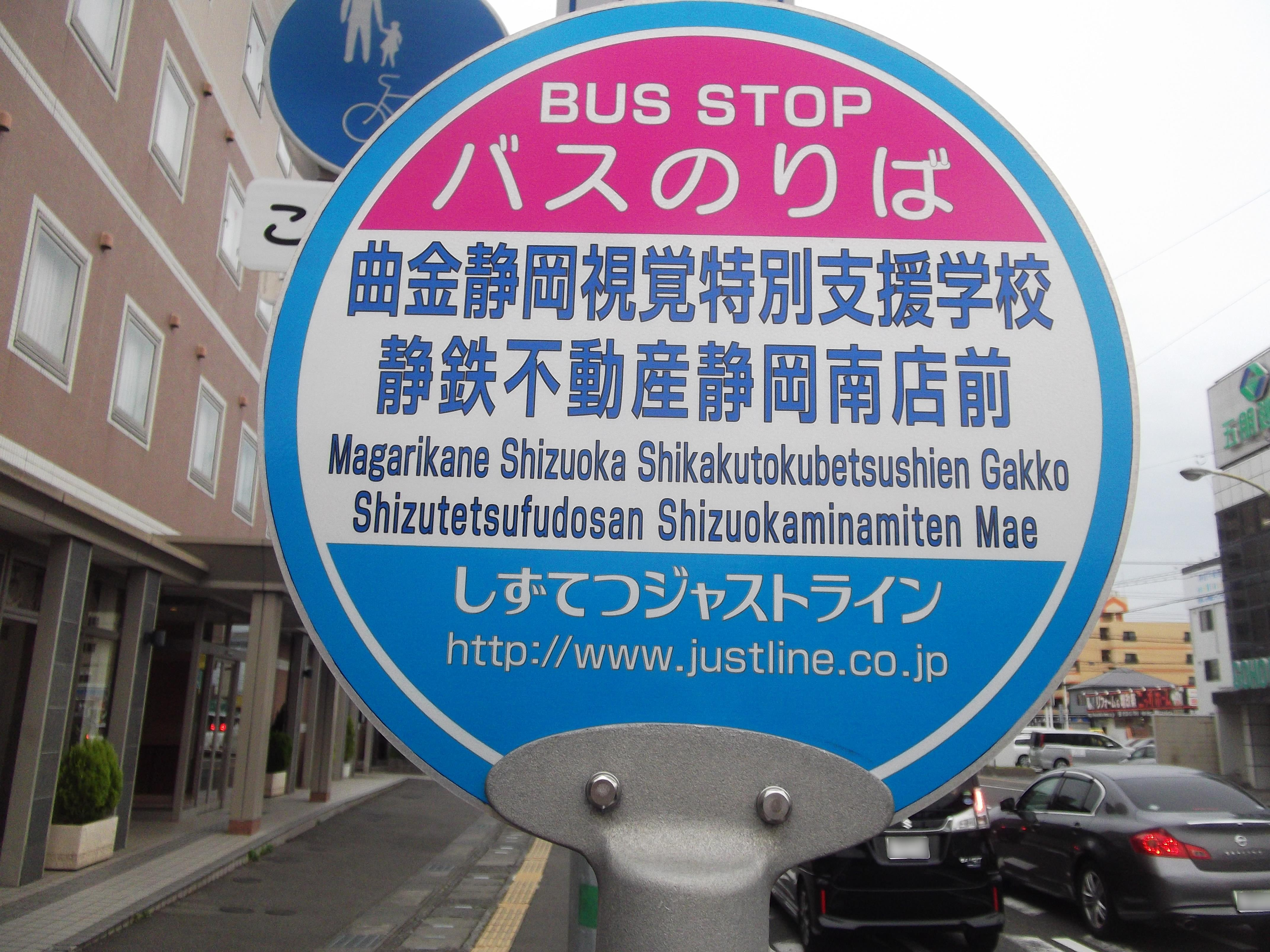 Shizutetsu Justline Bus, Magarikane Shizuoka Shikakutokubetsushien Gakko Shizutetsufudosan Shizuokaminamiten Mae Shizuoka Bus Stop.The most longest name Bus stop in japan as of 2018.